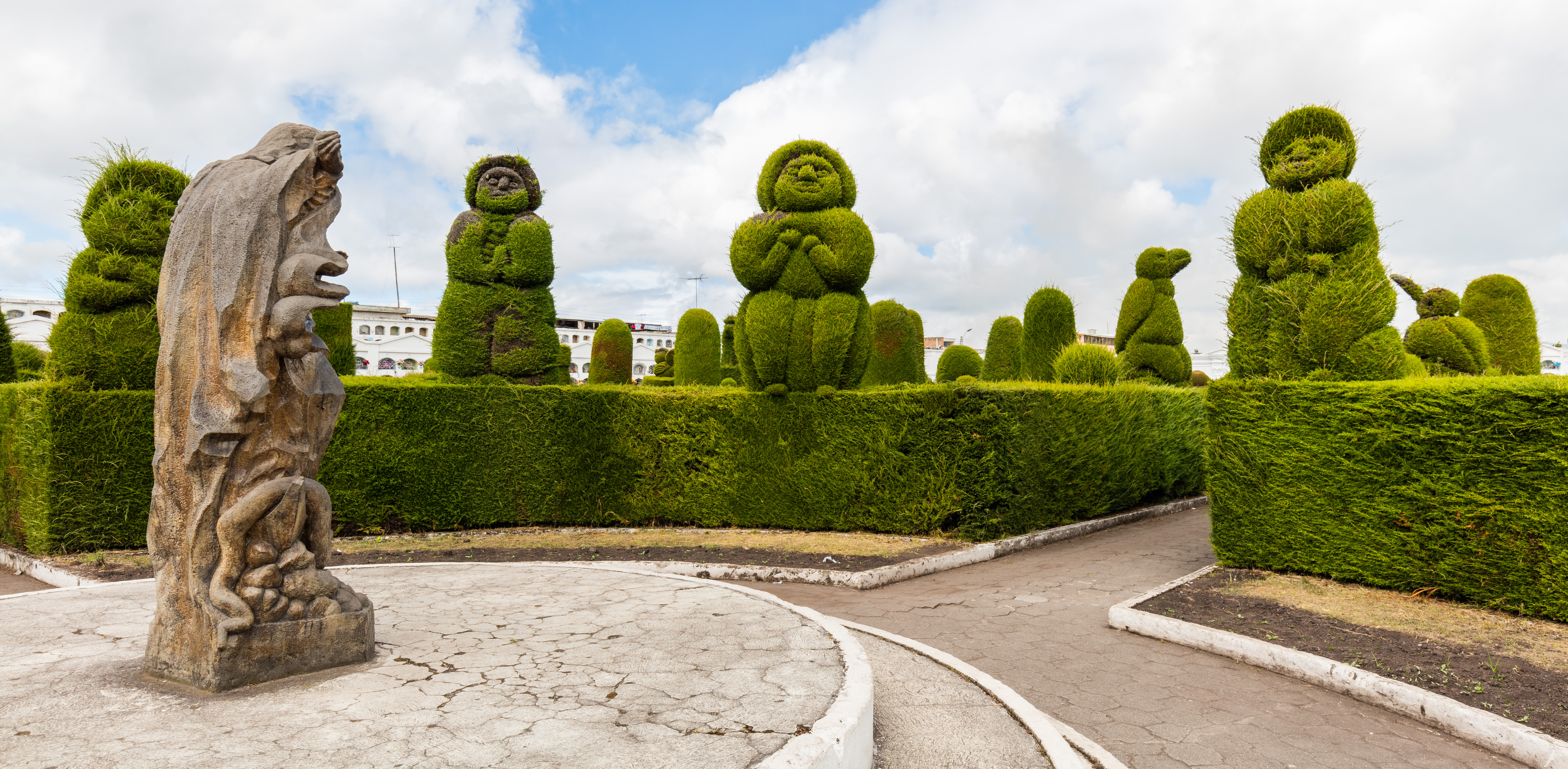 Cemetery, Tulcán, Ecuador